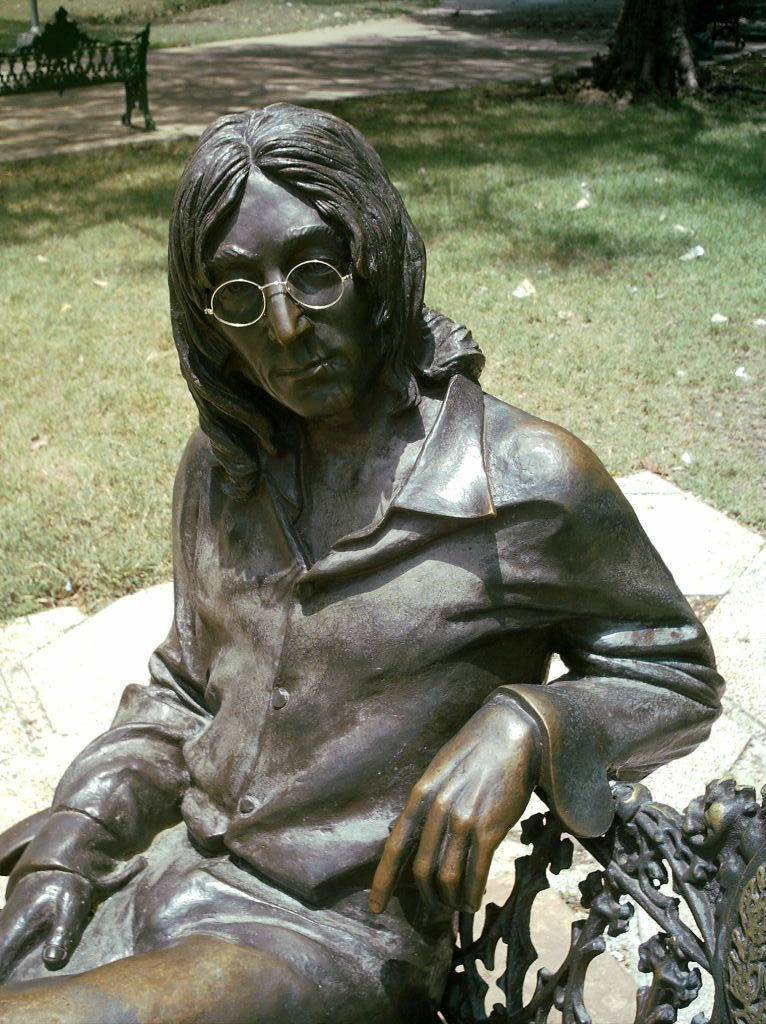 Sculptor: José Villa Soberón